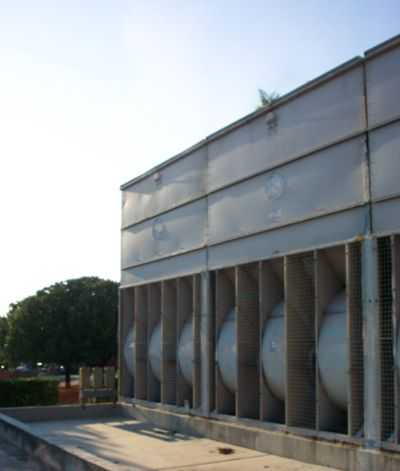 Forced draft cooling tower installed at hospital in San Antonio, TX